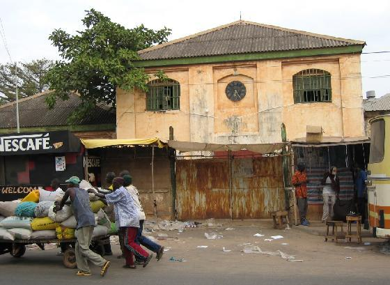 Banjul, colonial architecture, Banjul downtown